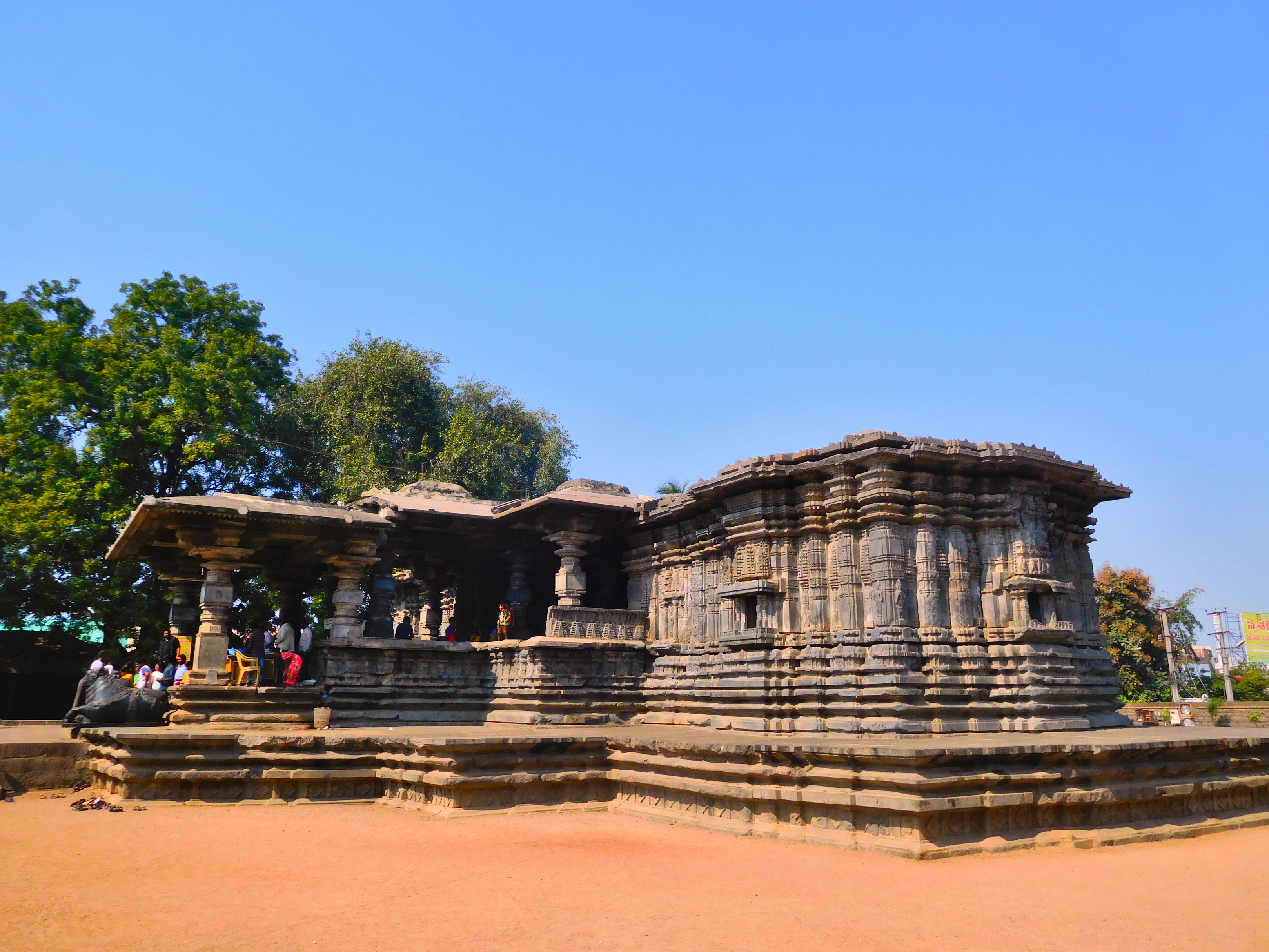 Warangal Thouand Pillars Temple